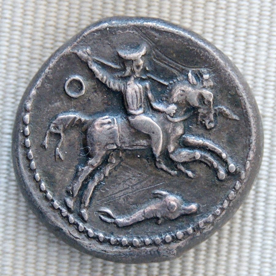 Silver tetradrachm of Evagoras II of Cyprus Salamis (368–346 BC); obverse: satrap riding.